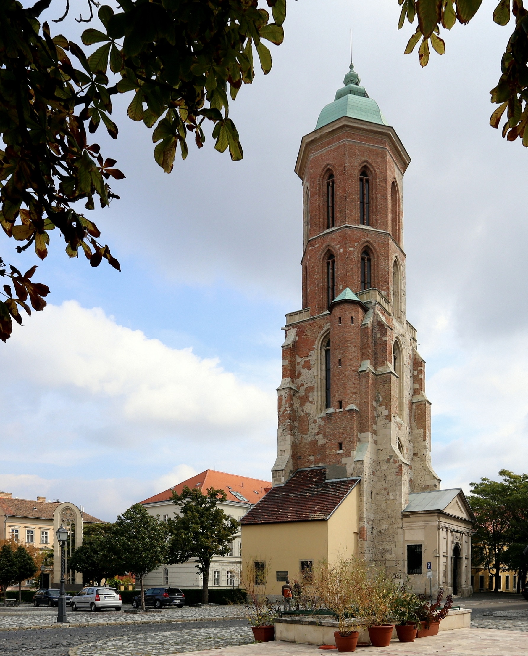 Tower and reconstructed window of St. Mary Magdalene's, Budapest